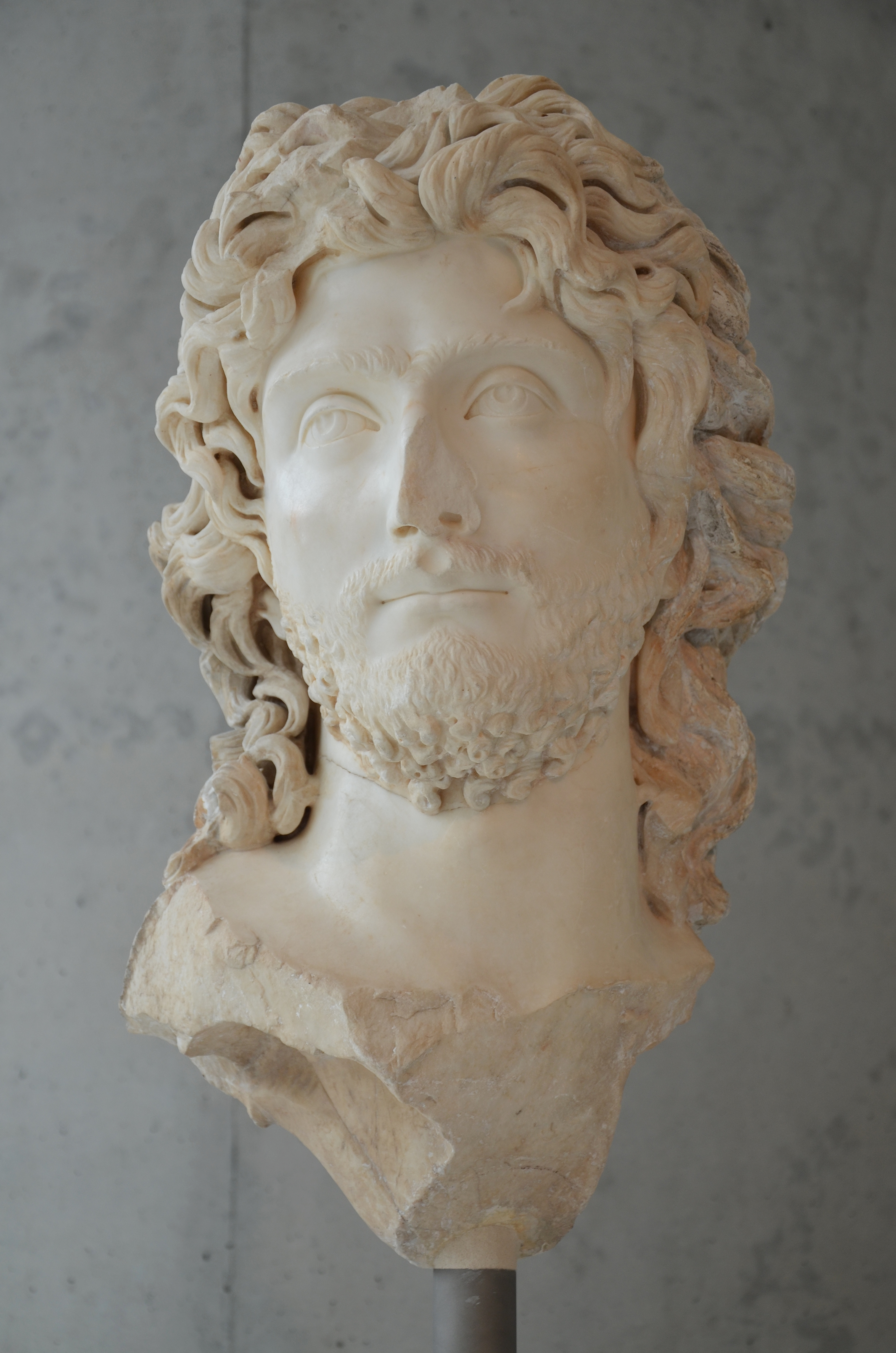 Portrait of a ruler, most likely representing Sauromates II, King of the Kimmerian Bosporus, around the end of 2nd century AD, Acropolis Museum, Athens